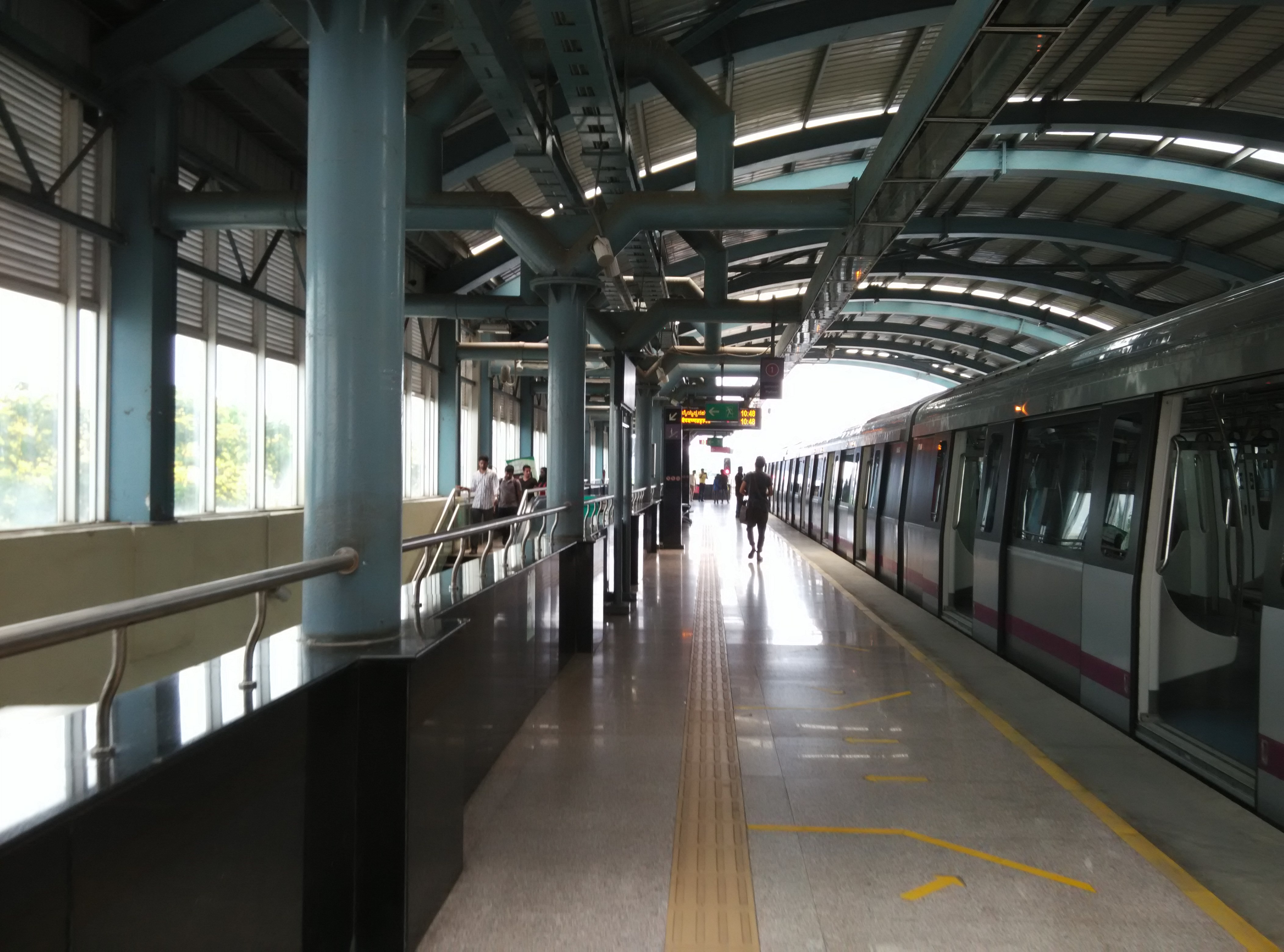 A view of the platform at the Indiranagar metro station in Bengaluru